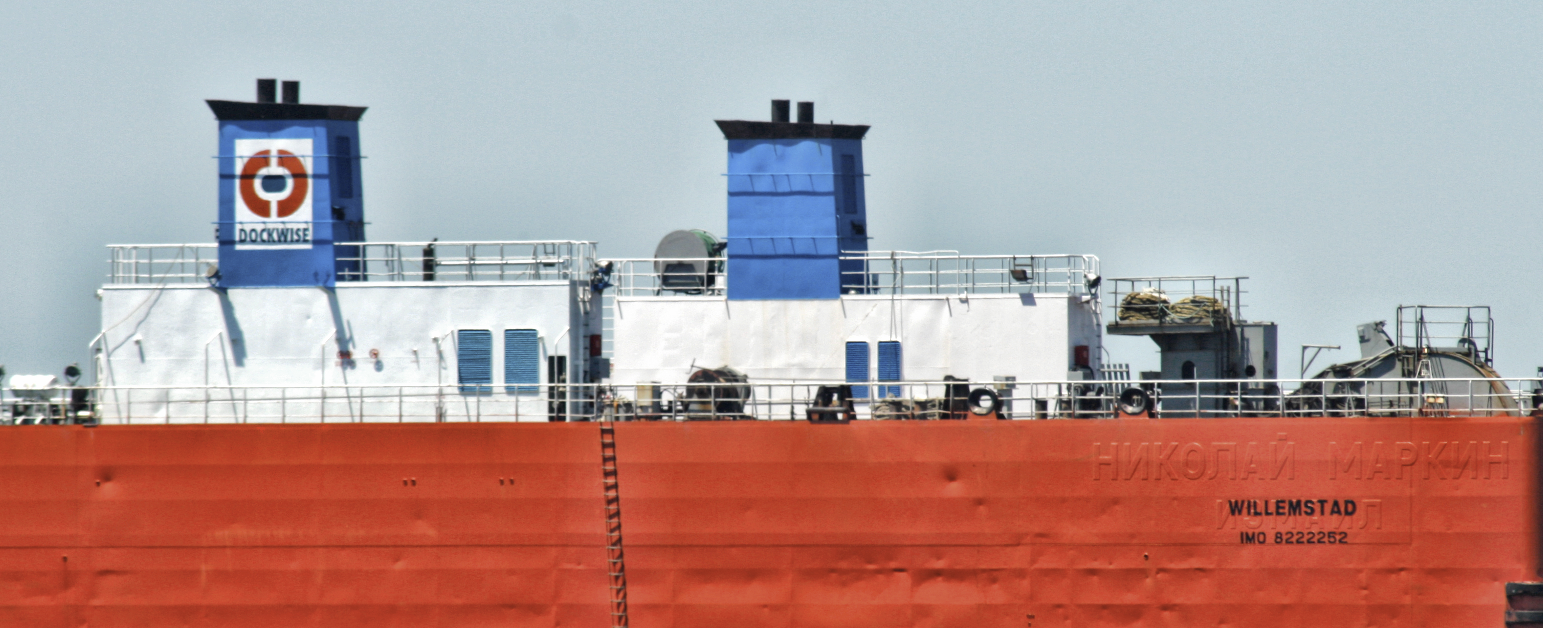 This Dockwise boat used to be Russian, it appears. What does it say that's painted over there? Nikolay Markin, her name until 1992-02-12